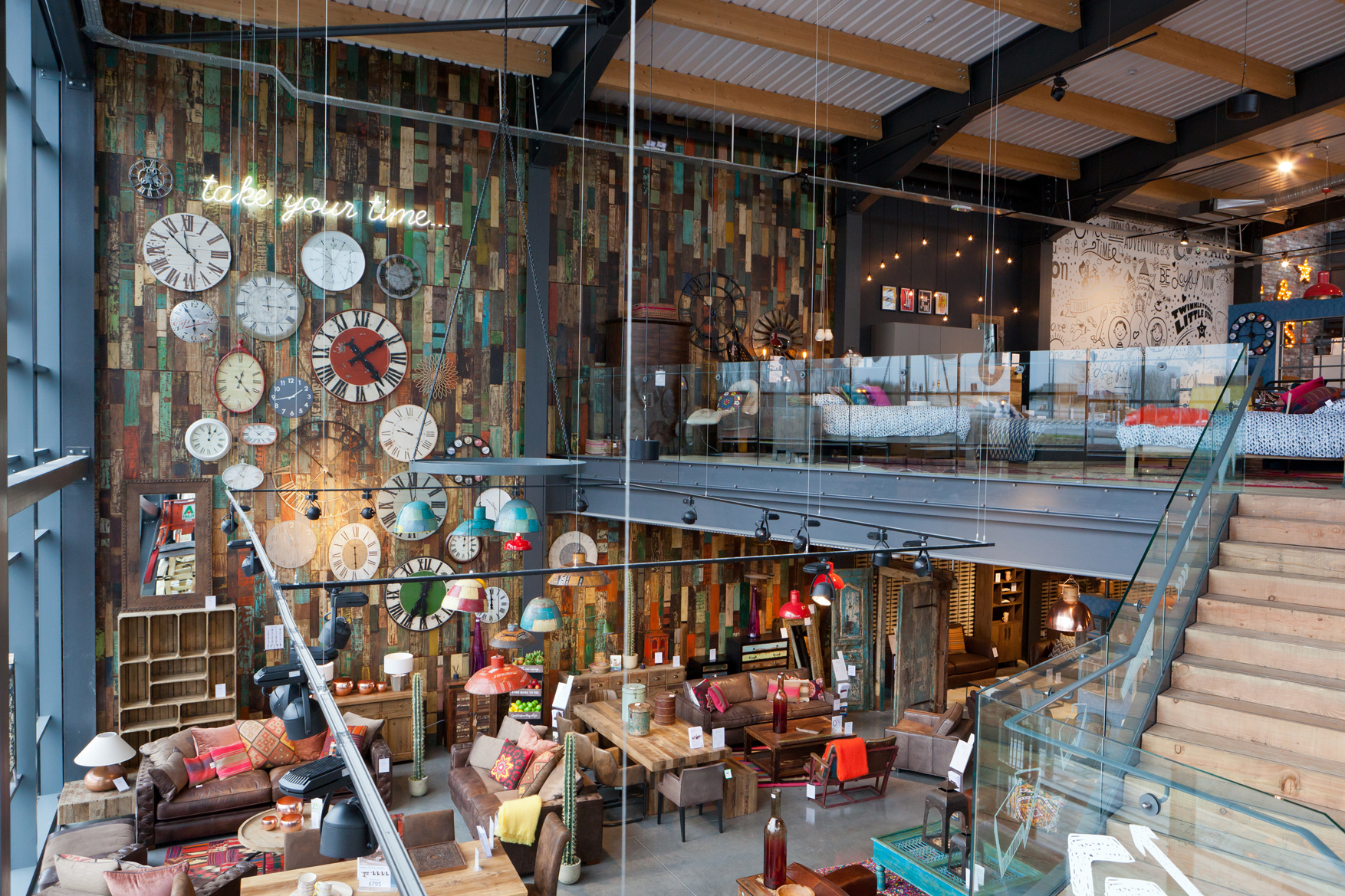 The interior of Barker and Stonehouse, Teesside Park